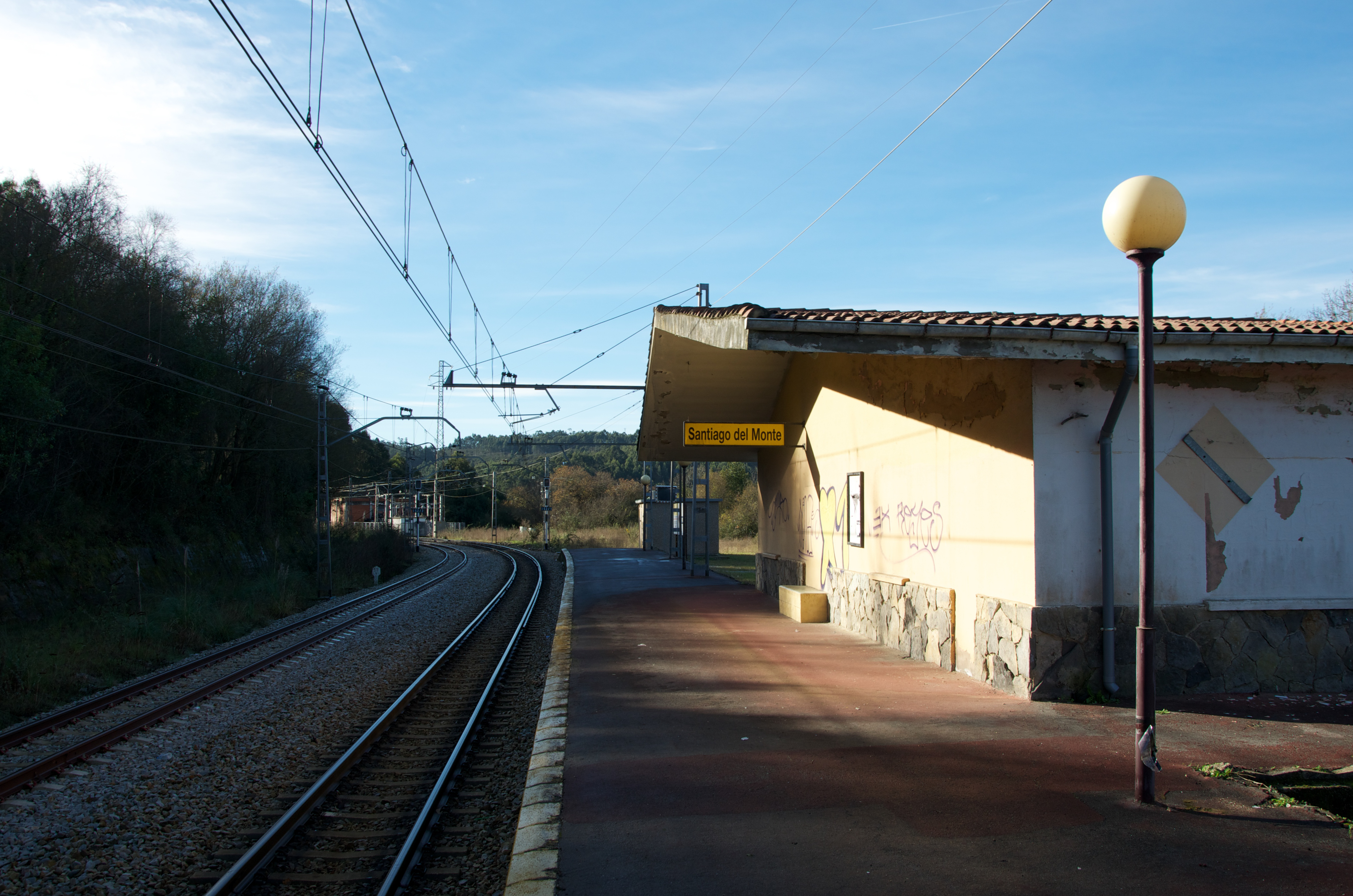 Santiago del Monte FEVE railway station. Asturias, Spain.